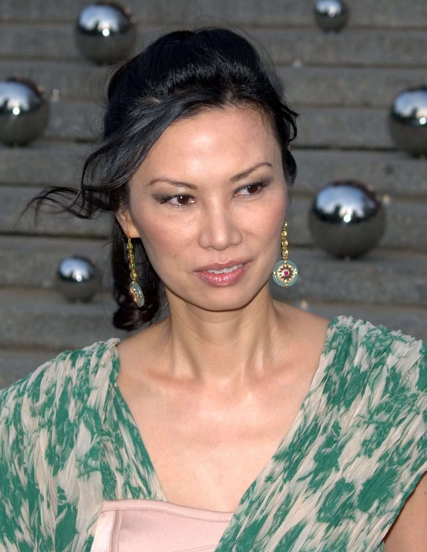 Wendi Murdoch at the 2010 Tribeca Film Festival.